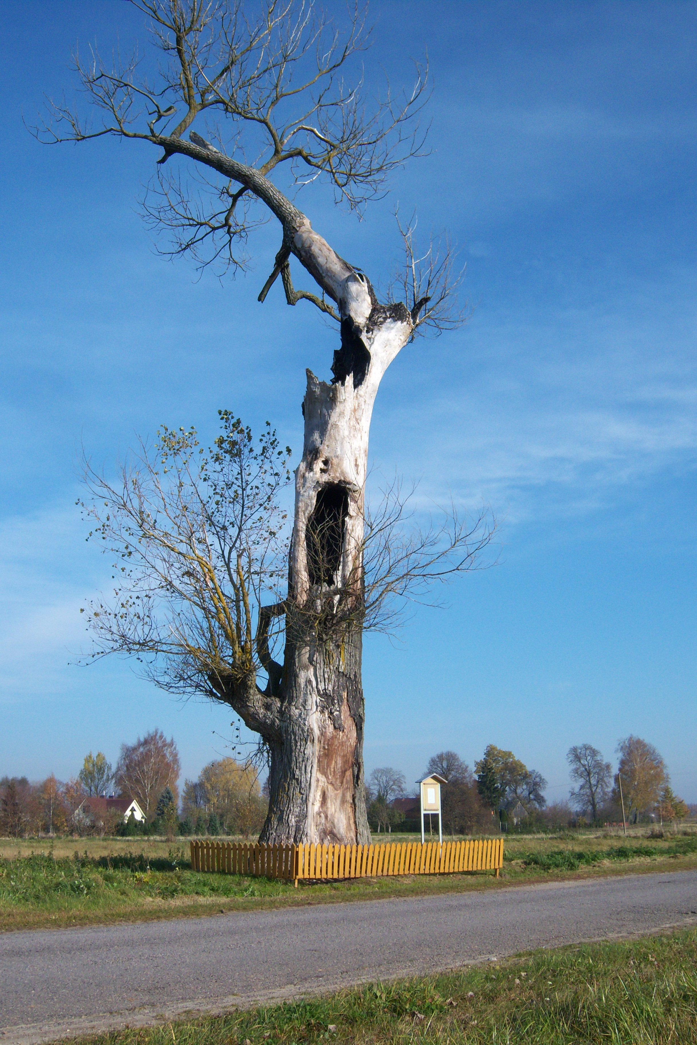 Karpis' Poplar, Paštuva, Kaunas District. Lithuania